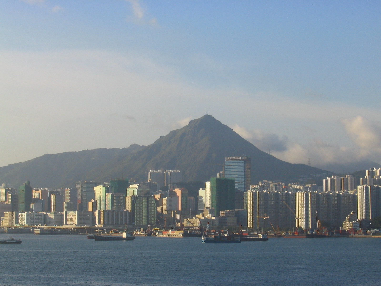 觀塘區及後方的飛鵝山 Kwun Tong District & Kowloon Peak